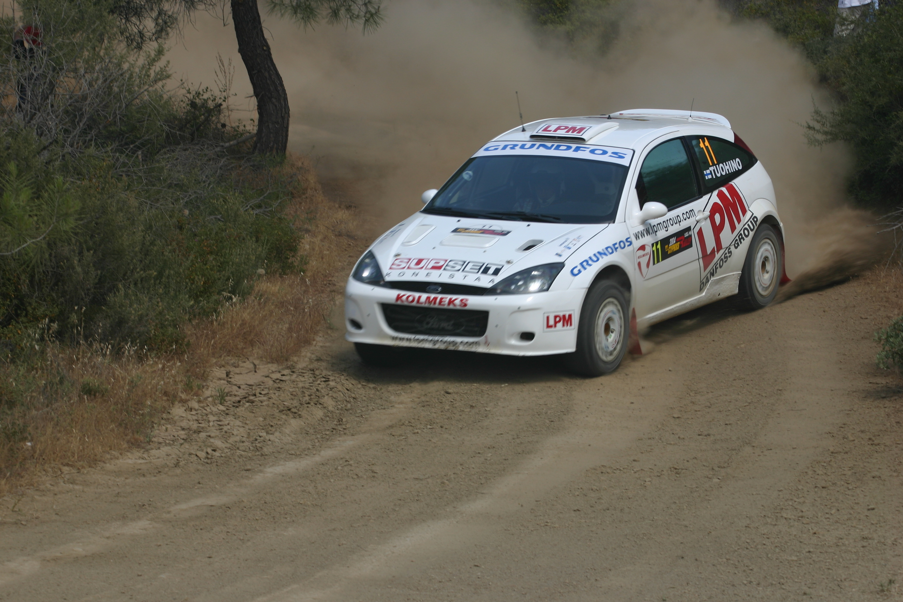 Janne Tuohino driving a Ford Focus WRC at the 2004 Cyprus Rally.